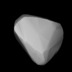 3D convex shape model of 1368 Numidia, computed using light curve inversion techniques. J. Hanuš, J. Ďurech, M. Brož, B. D. Warner (June 2011). "A study of asteroid pole-latitude distribution based on an extended set of shape models derived by the lightcurve inversion method". Astronomy and Astrophysics 530: A134. ISSN 0004-6361. arXiv